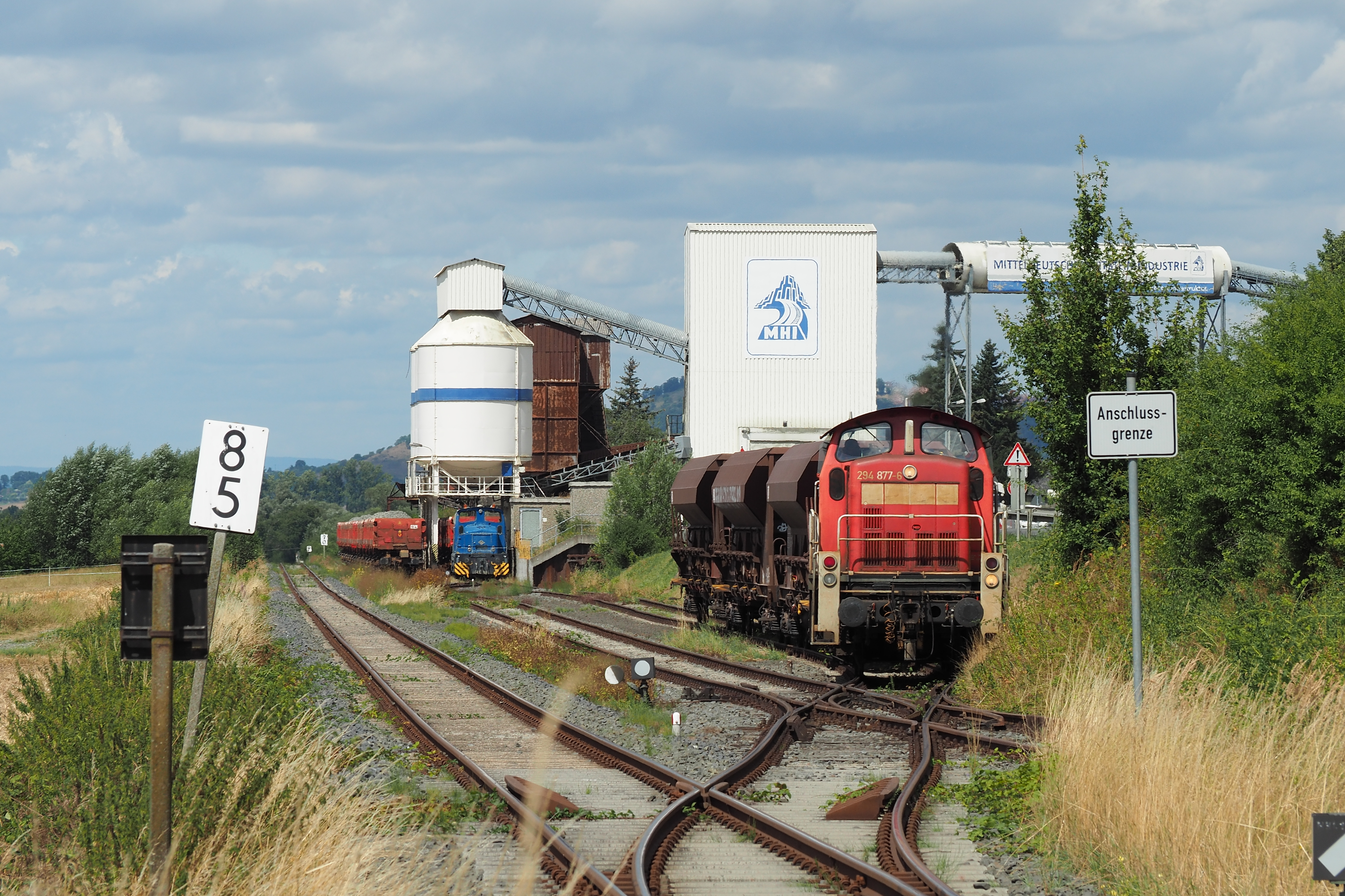 Freight train in Homberg (Ohm)-Ober-Ofleiden at the Kirchhain-Homberg railway with a DB Class V 90